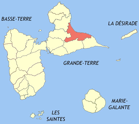 Location of Le Moule within Guadeloupe